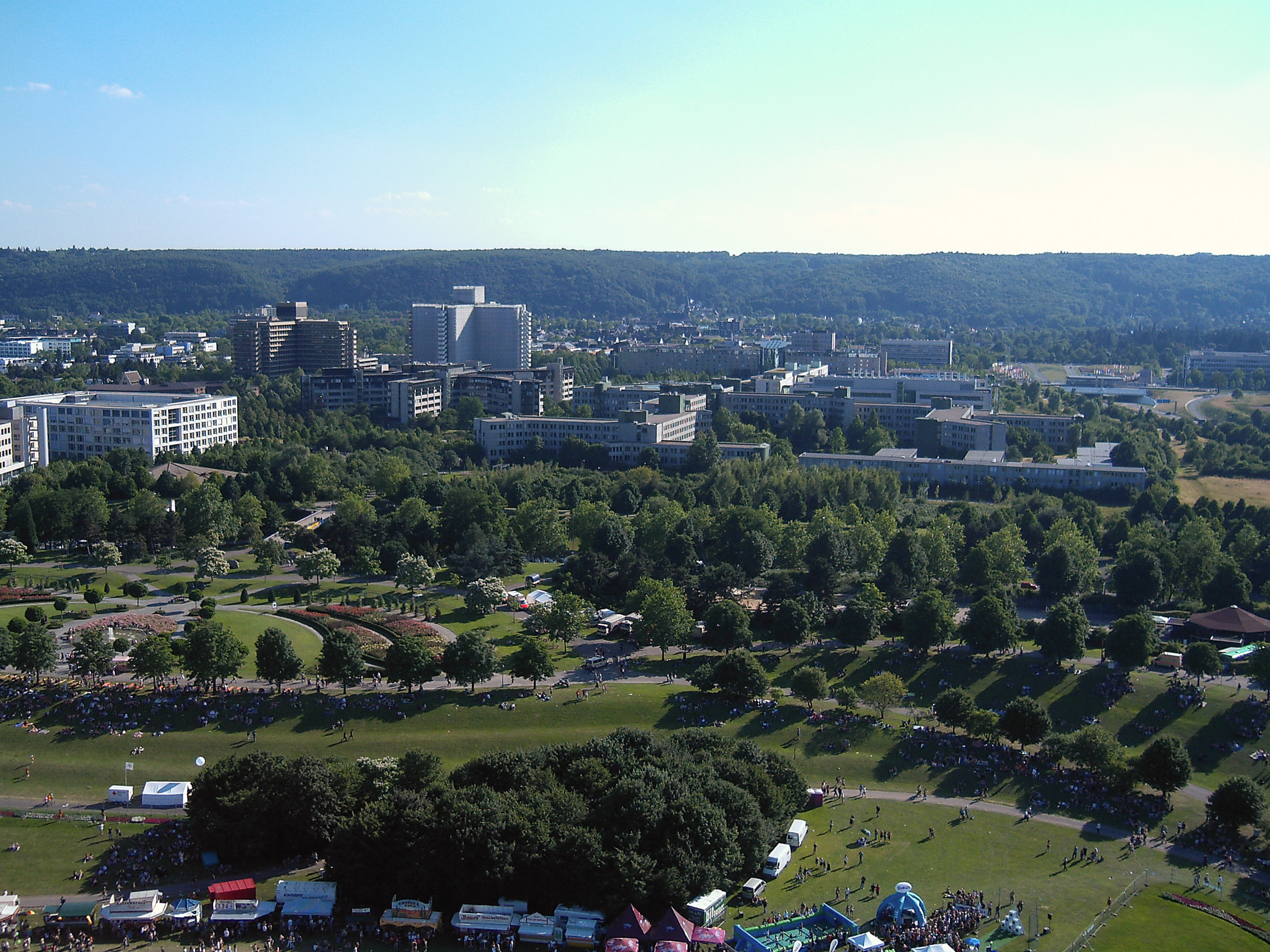 Aerial view of the Rheinaue Leisure Park with view on Hochkreuz.